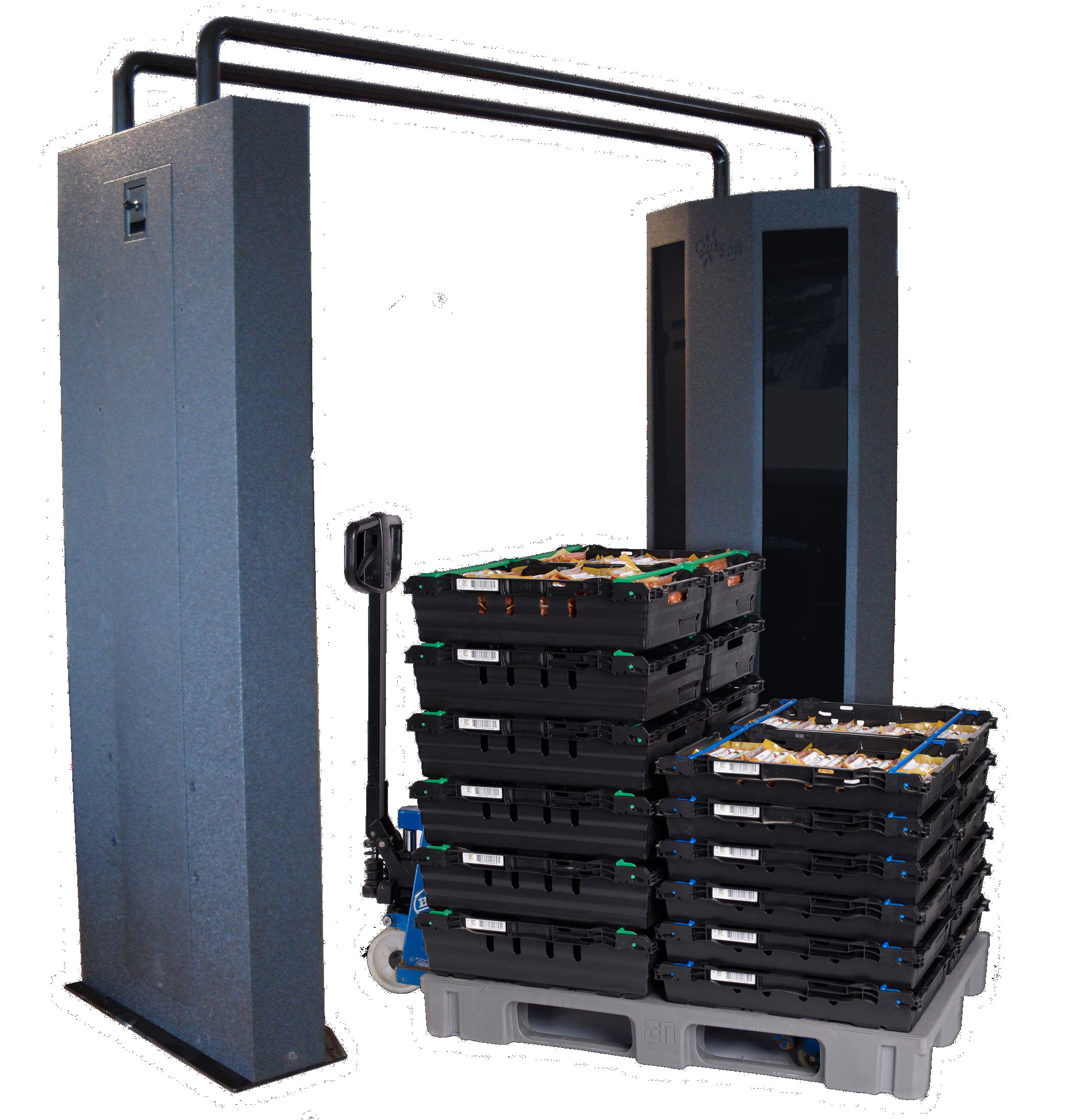 Advanced RFID portal for robust registration of tags passing, their direction and effective elimination of ambient tags inside read-range.